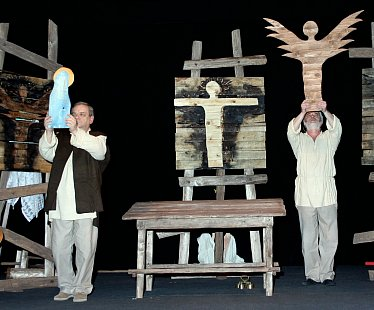 Pastorałka.